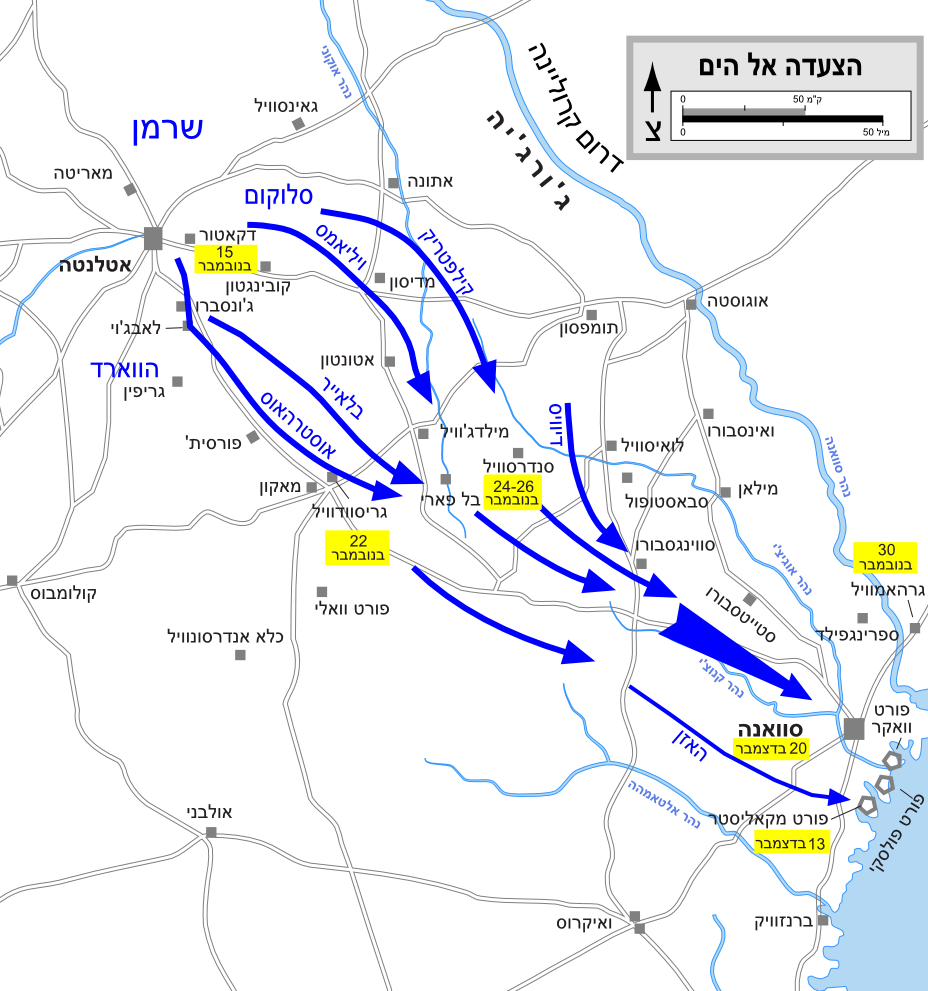 Map of the Savannah Campaign (Sherman's March to the Sea) of the American Civil War. Drawn by Hal Jespersen in Adobe Illustrator CS5. Graphic source file is available at